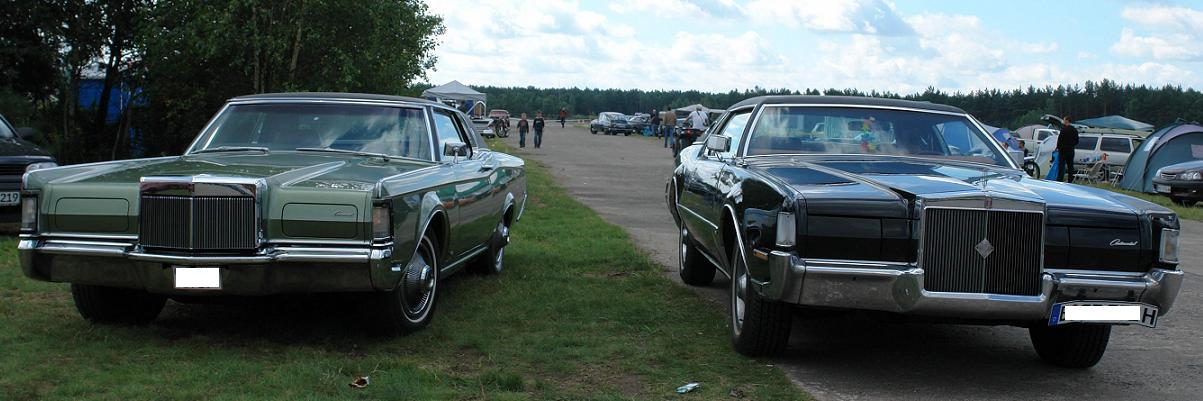 Lincoln Continental Mark III and Mark IV